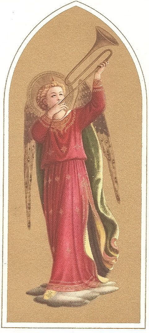 One of the postcards from the Museo San Marco of Florence, Italy, sold at the Vickery Atkins & Torrey art gallery in San Francisco as a Christmas card - one of the first in the city.